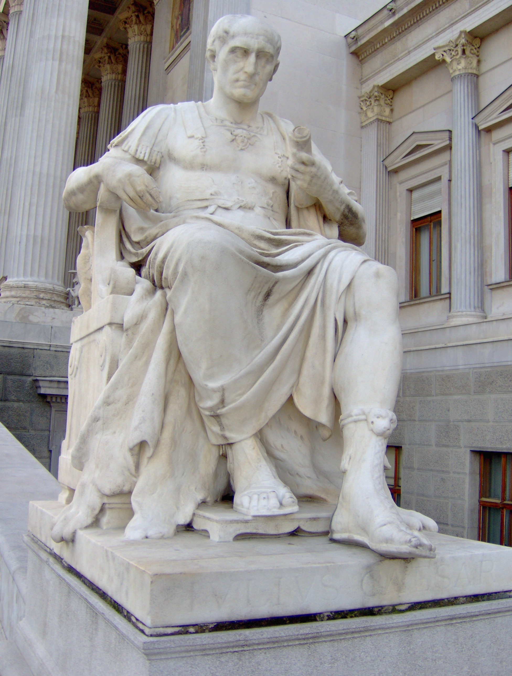 Austria, Vienna, Austrian Parliament Building